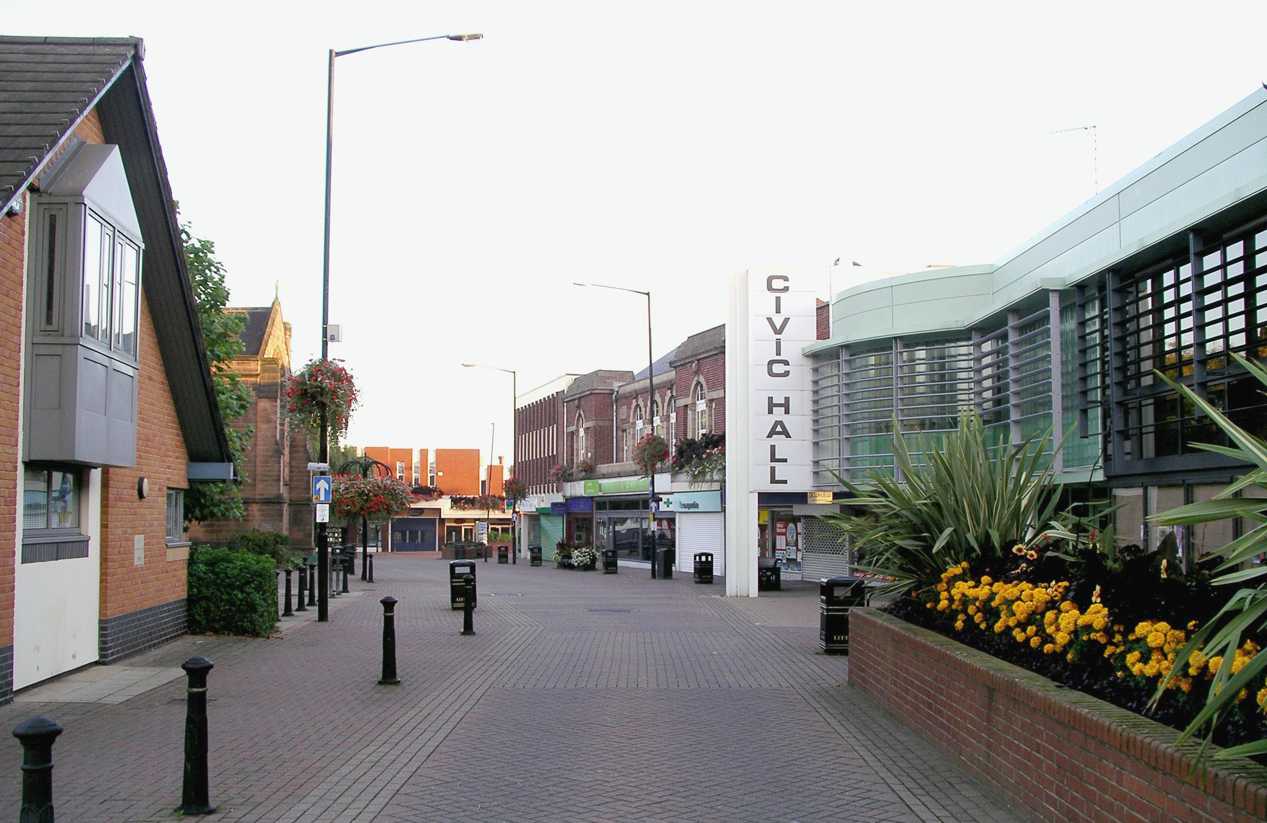 Bedworth town centre including the Civic Centre, Warwickshire, England.